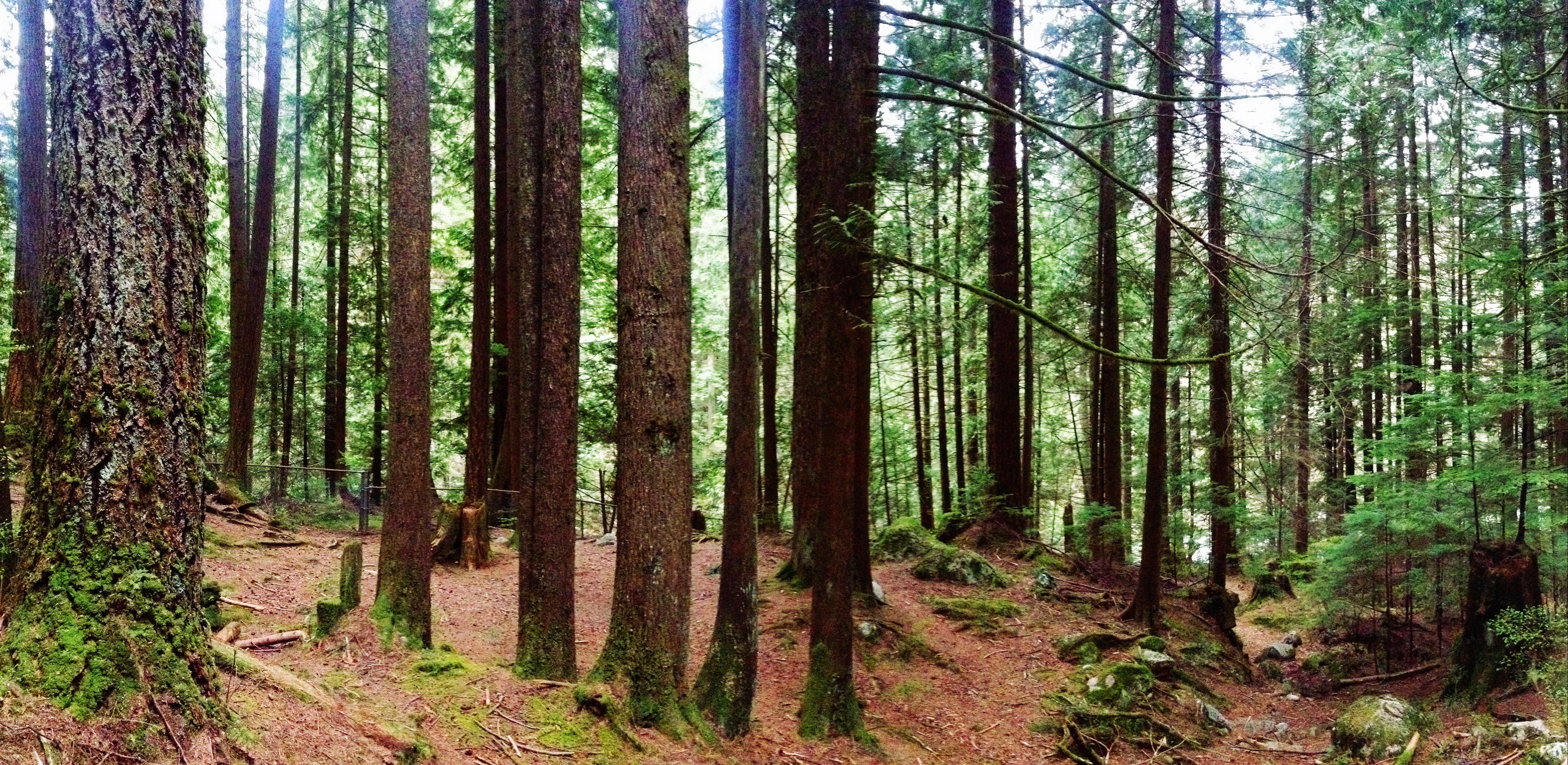 Photo of Lynn Canyon Park, North Vancouver, Canada